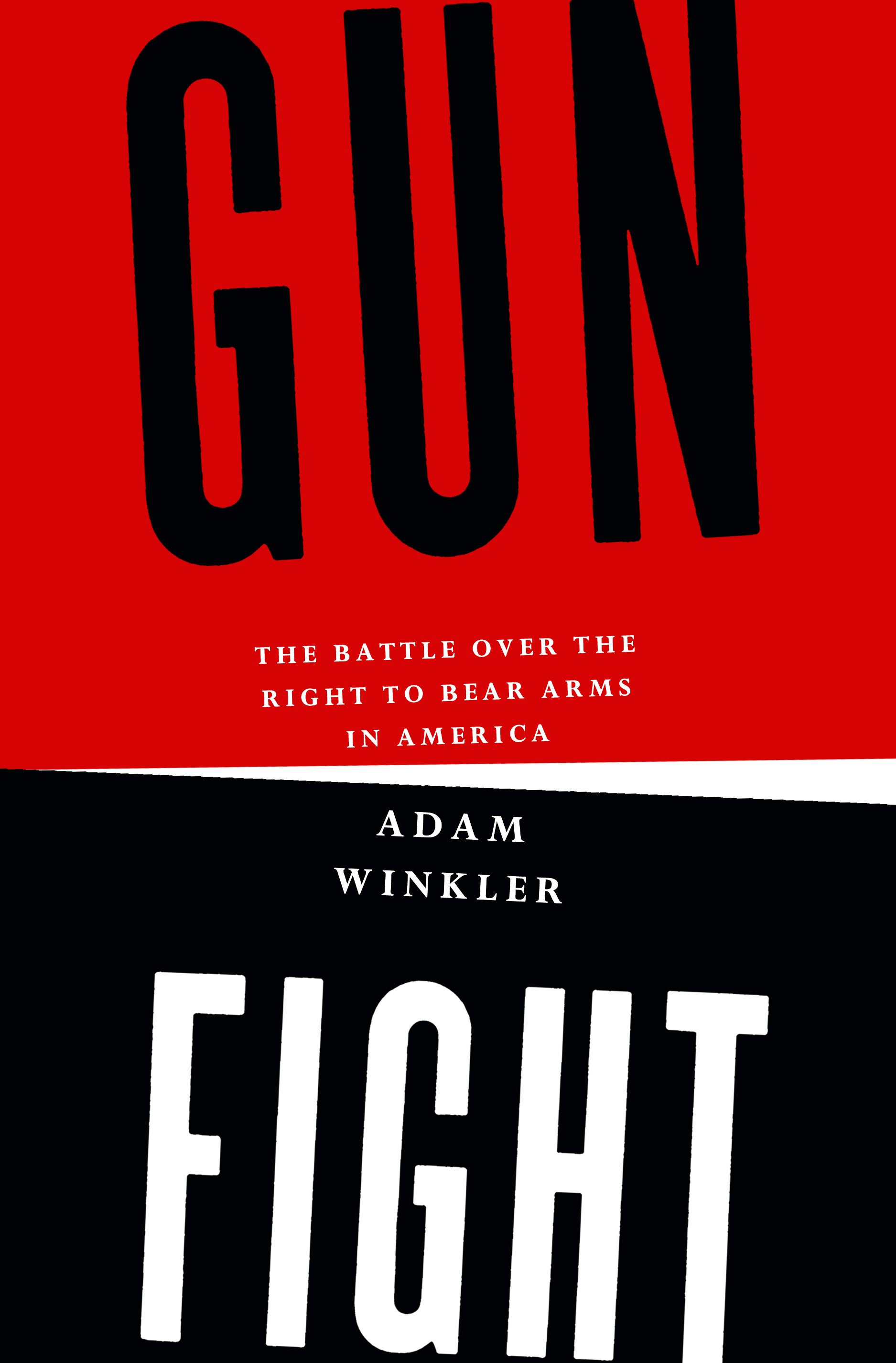 Book cover for Gun Fight.